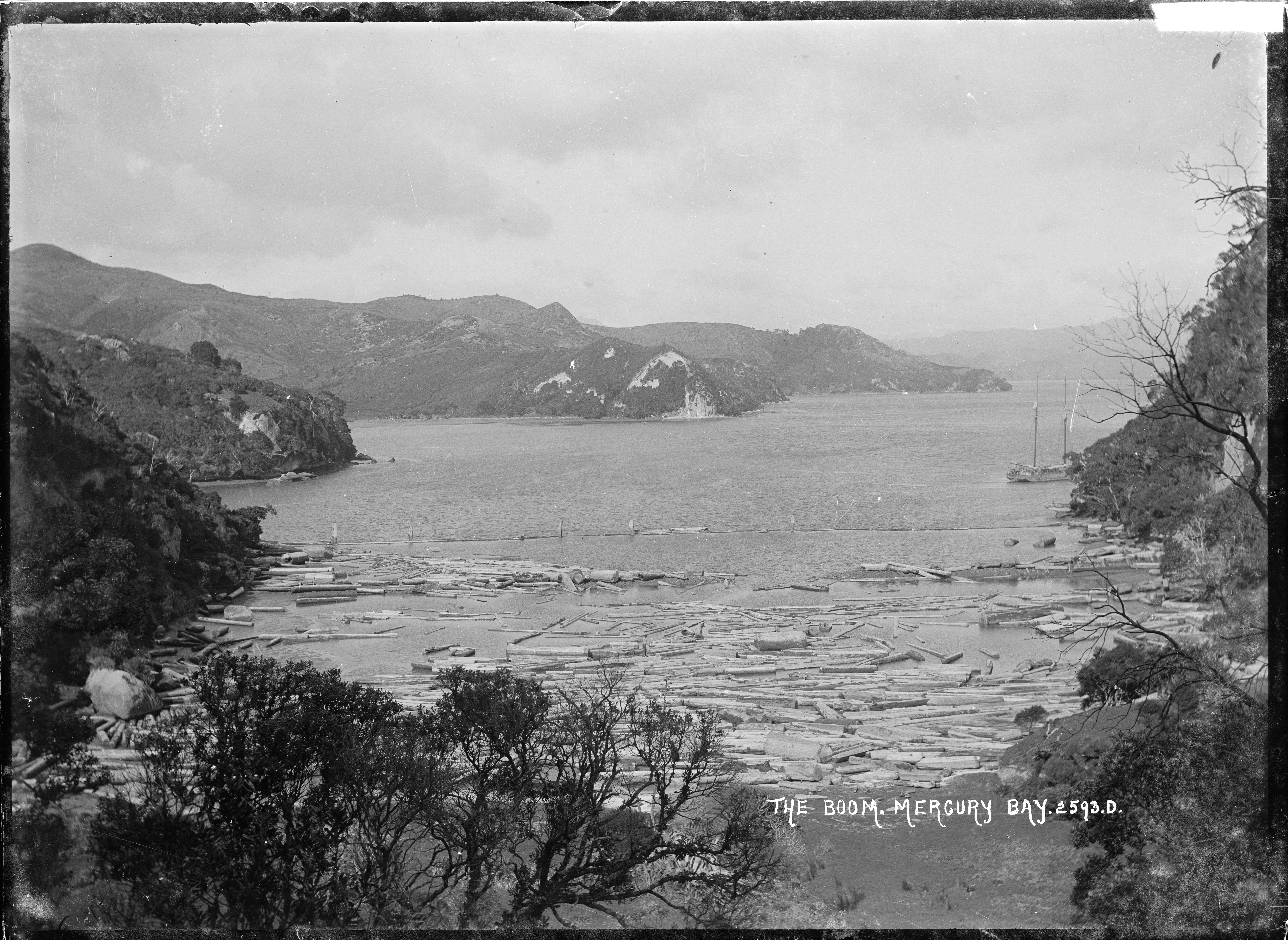 Mercury Bay, showing a boom. Taken by William A Price in ealy 1900s. Inscriptions: Inscribed - Photographer's title on negative -The boom. Mercury Bay. 2593. D. Quantity: 1 b&w original negative(s). Physical Description: Dry plate glass negative 4.5 x 6.5 inches The boom, Mercury Bay, Coromandel Peninsula. Price, William Archer, 1866-1948 :Collection of post card negatives. Ref: 1/2-000679-G. Alexander Turnbull Library, Wellington, New Zealand.